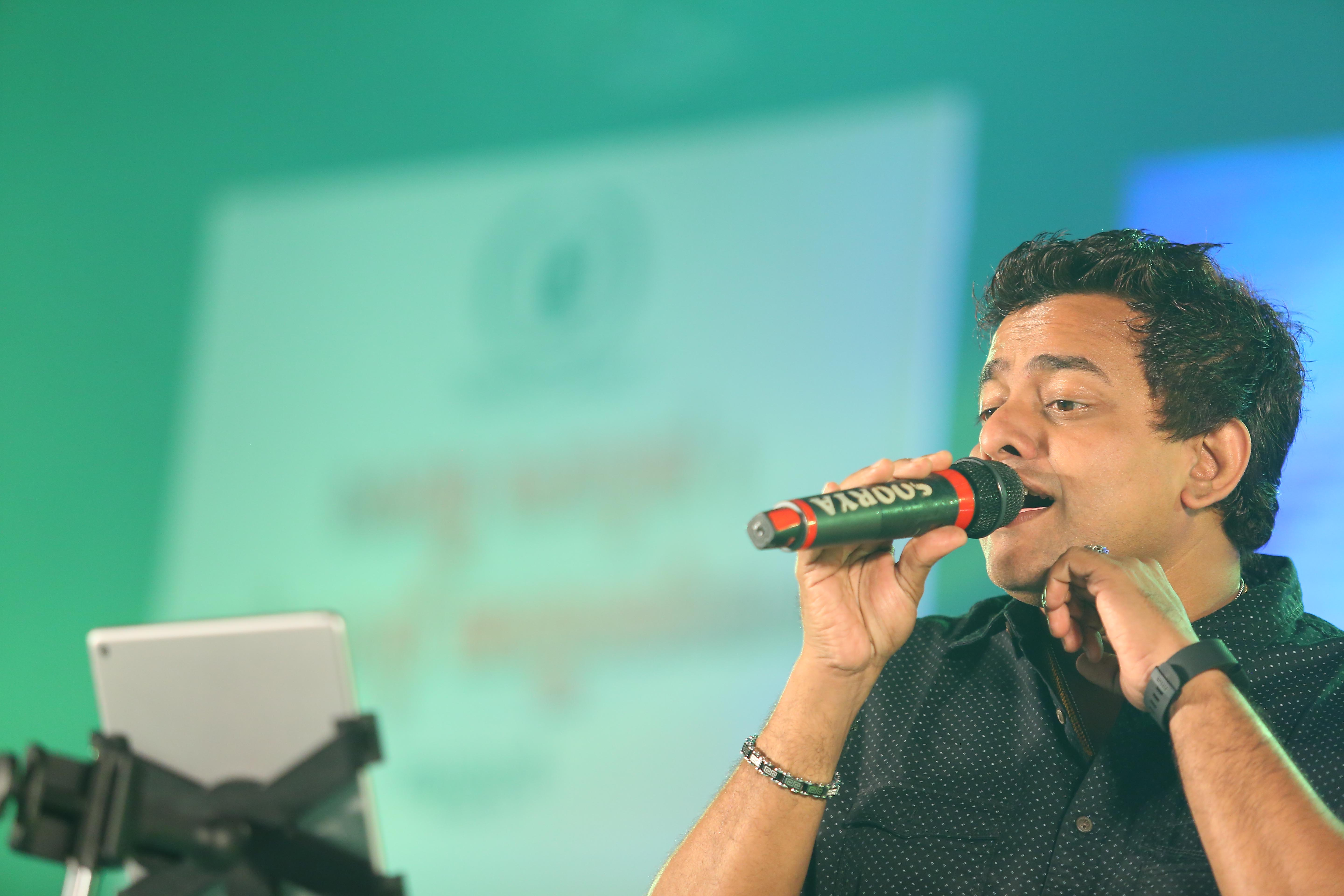 Franco performing for Soorya TV